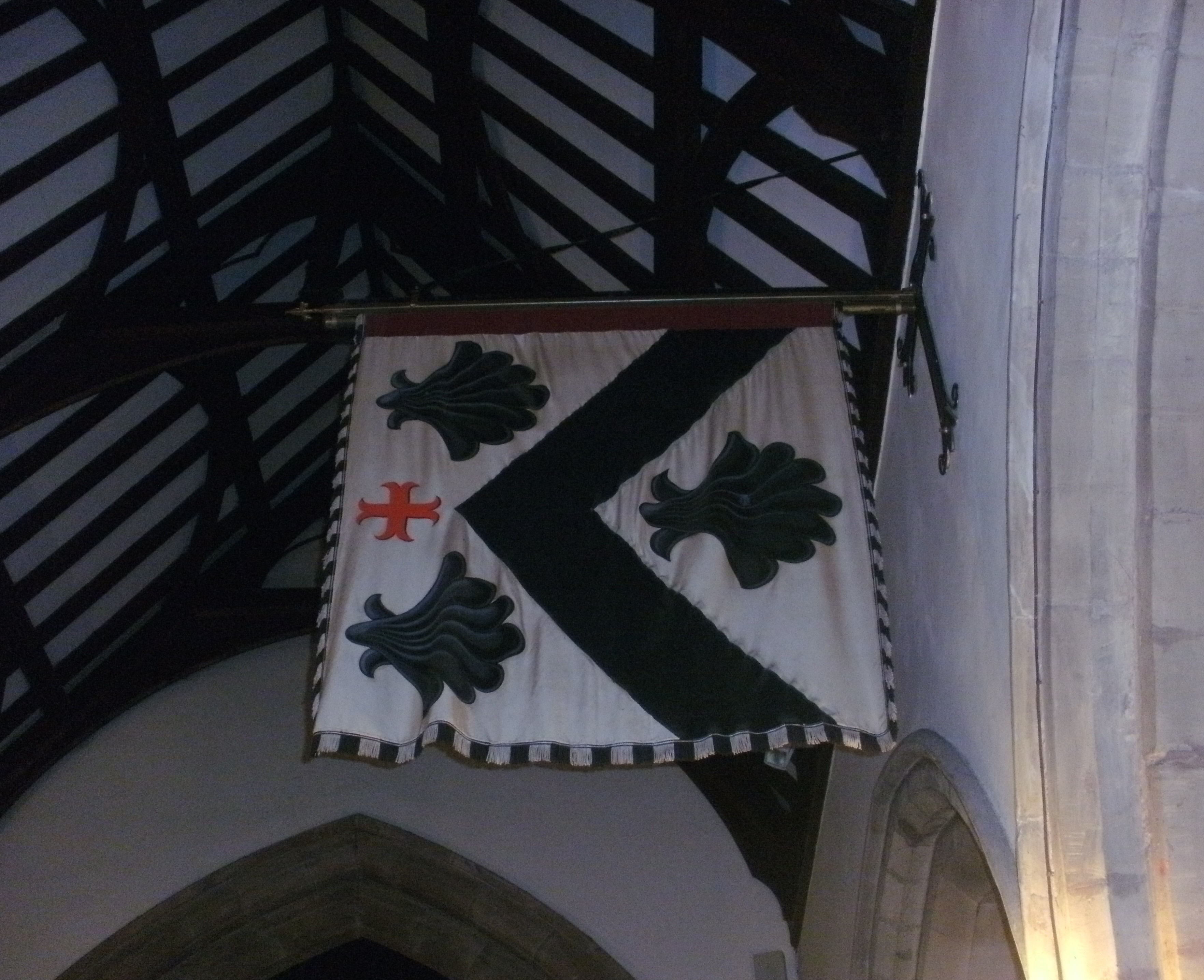 Hagley, Worcestershire, St John the Baptist Church - interior, banner of Oliver Lyttelton, 1st Viscount Chandos, as Knight of the Garter (photograph taken looking east)